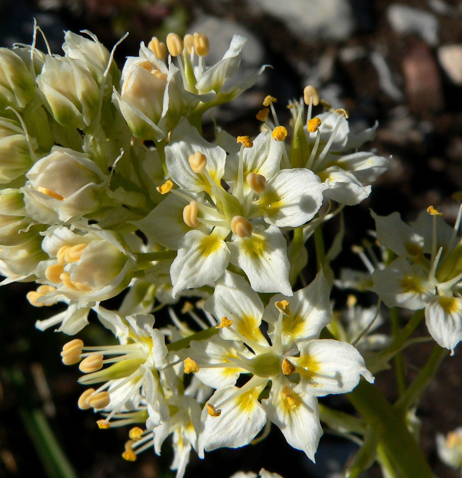 Zigadenus paniculatus in burned area off 158 near Robbers Roost, Spring Mountains, southern Nevada